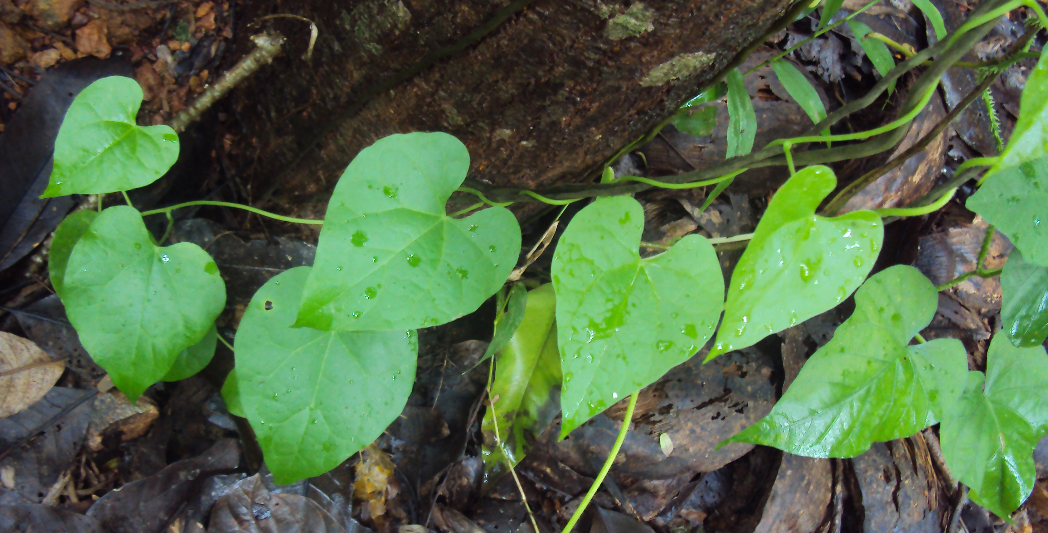 Tinospora cordifolia leaves . ചിറ്റമൃത്‌